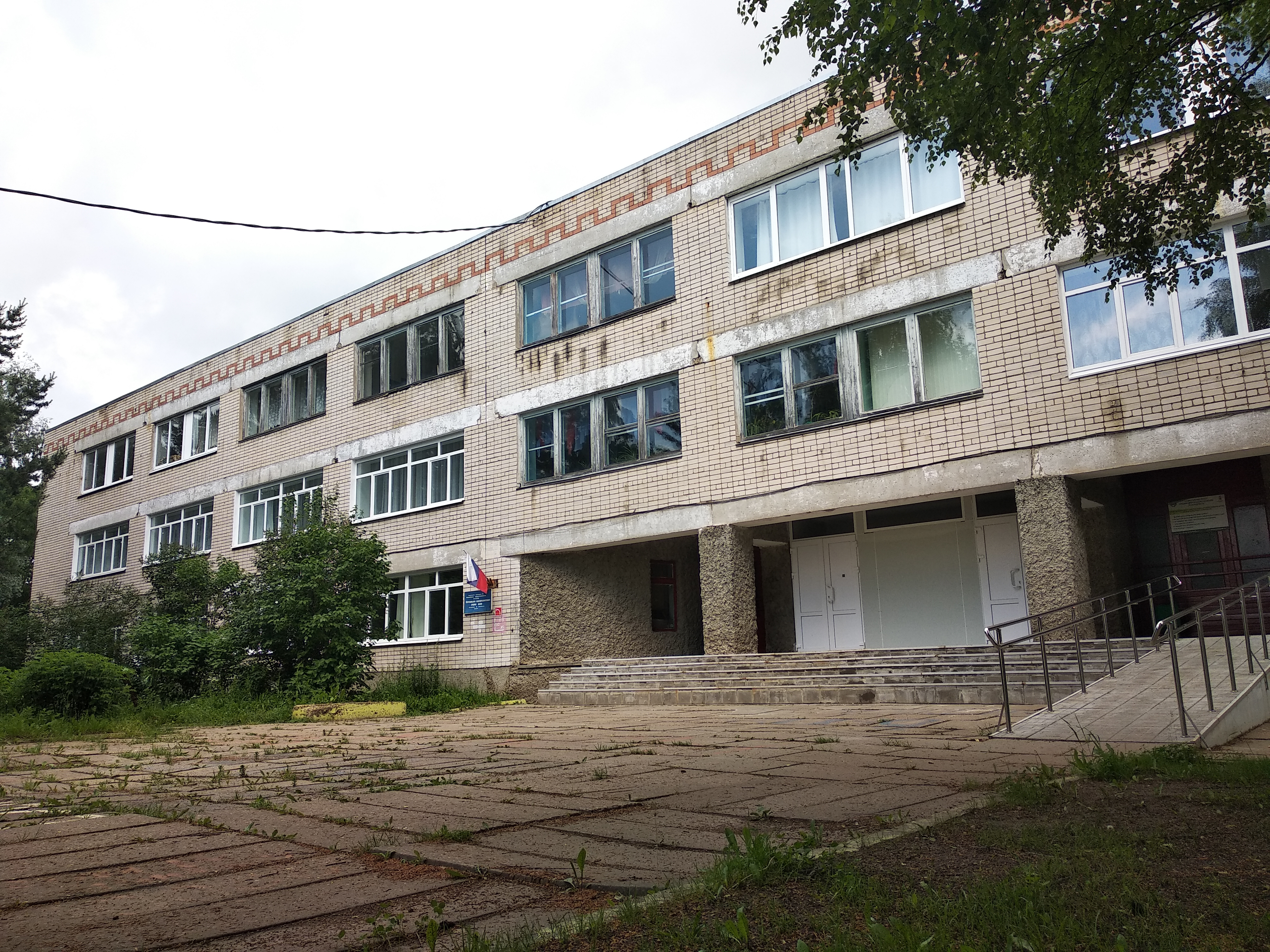 Shurskol school (Shurskol village, Russia)